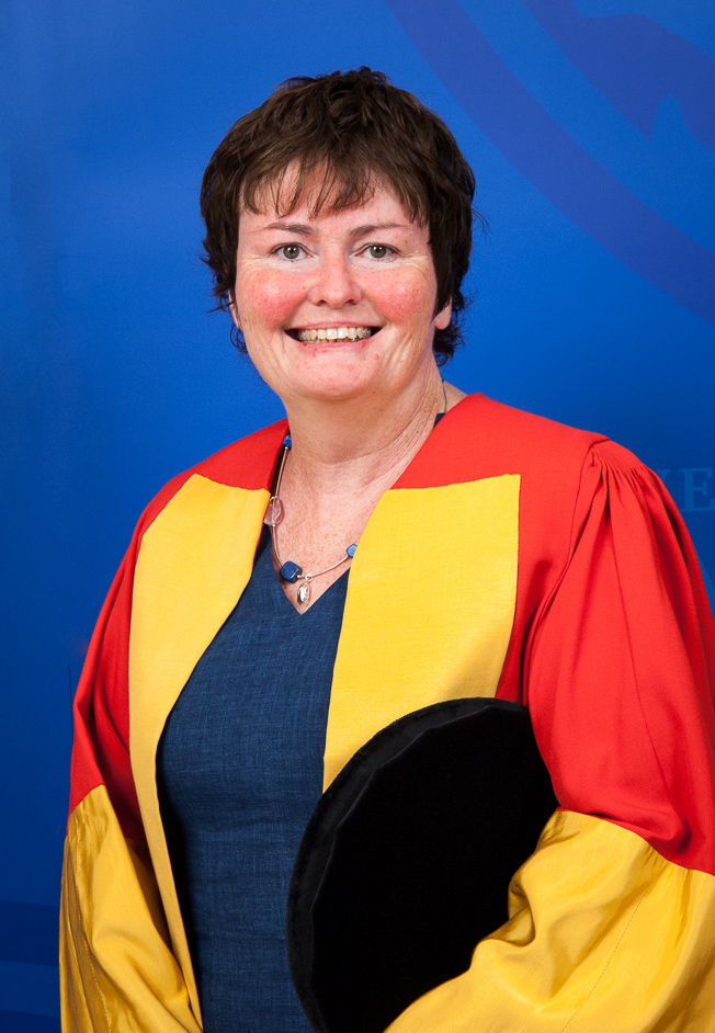 Professor Fiona Powrie FRS receiving an honorary degree from the University of Bath, where she studied for her undergraduate degree, in 2015.